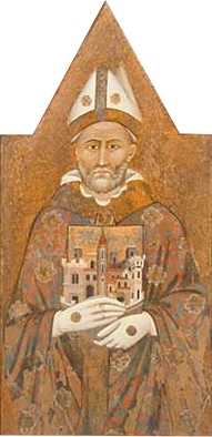 The Bishop St.Herculanus, patron of Perugia, with a model of the town. Tempera on wood, 160 x 82cm. Inv.No.28. Painting Technique: auf Holz.